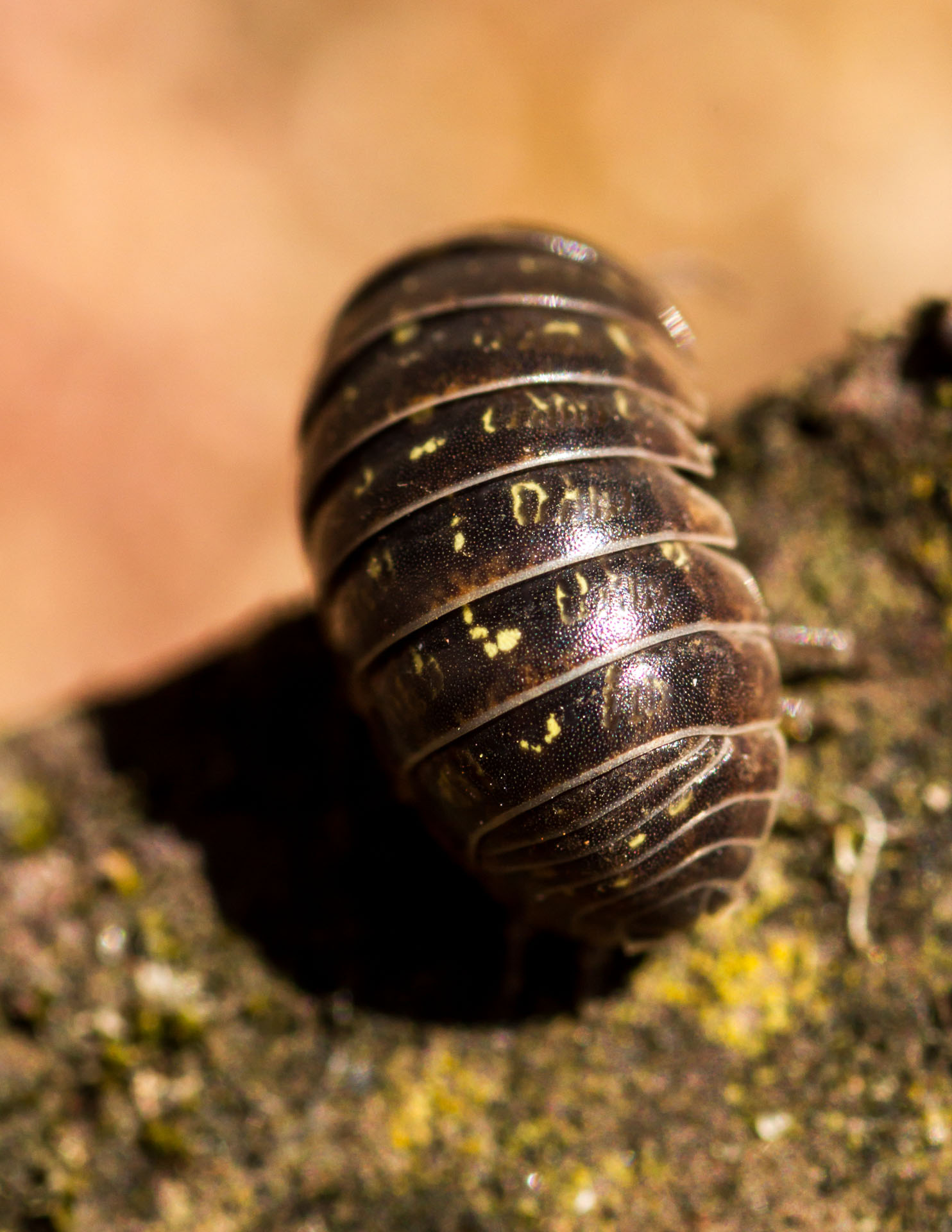 woodlouse crawling over the edge of a stone